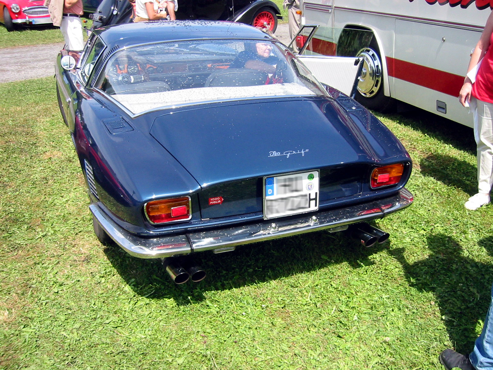 Iso Grifo A3 L